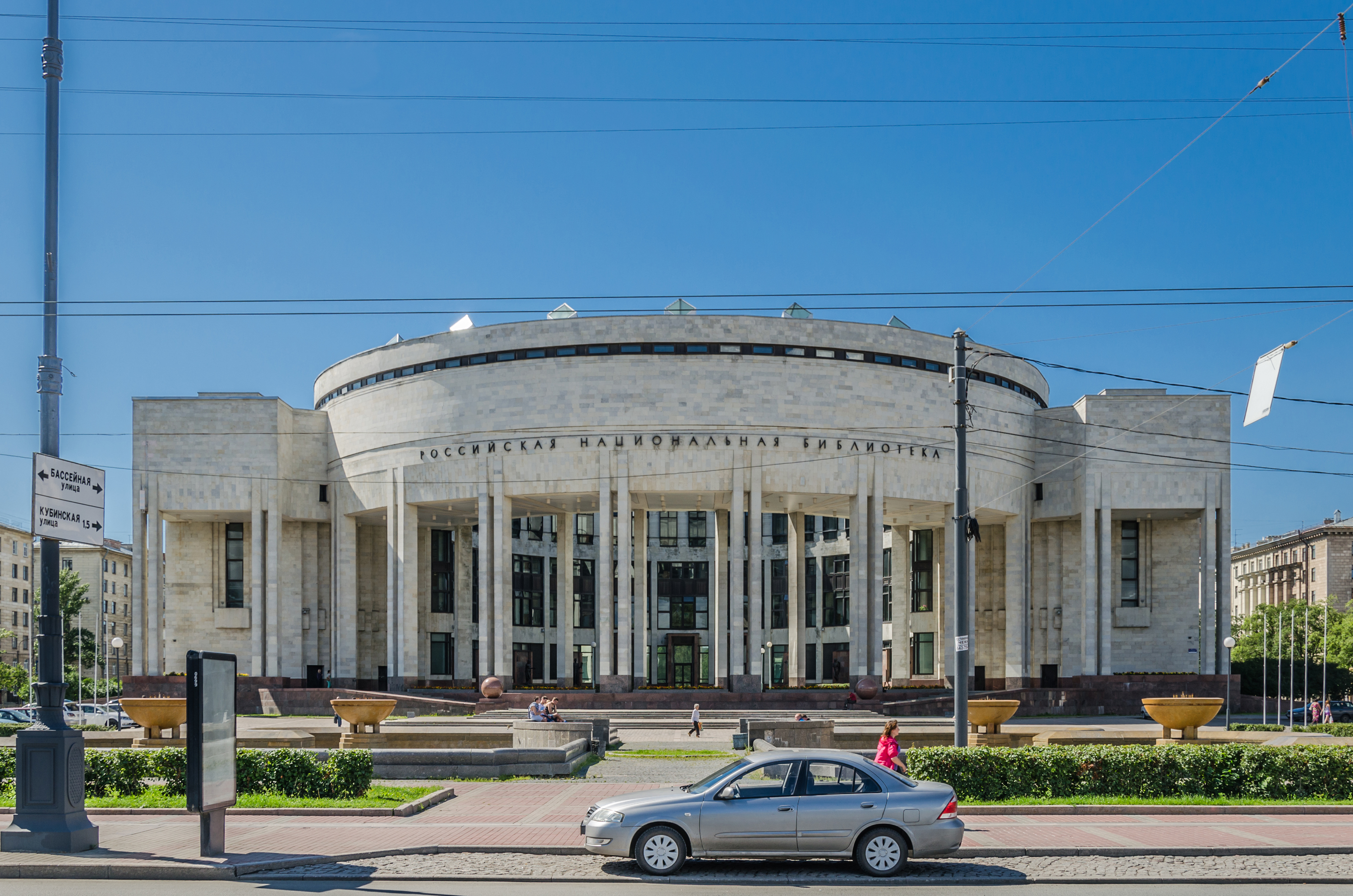 Russian National Library building on Moskovsky prospect in Saint Petersburg